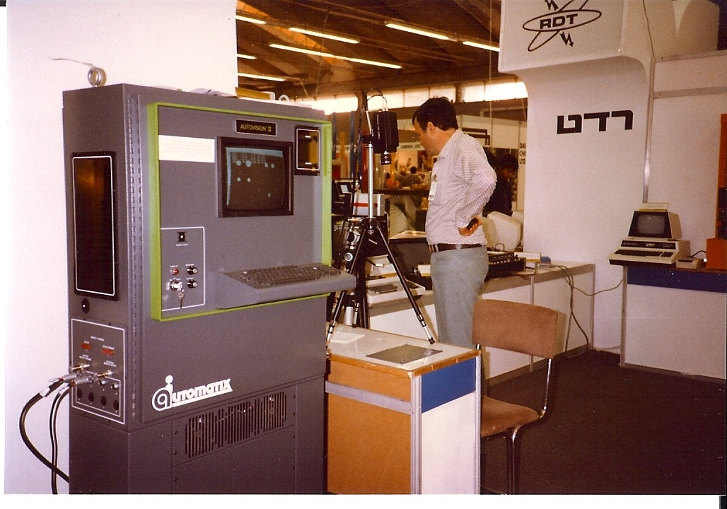 Early Automatix (now part of Microscan) machine vision system "Autovision II" at "Technology 83" trade show in Israel demonstrating blob analysis using backlighting. The analyzed image is shown on the display. Note Commodore PET in the background, which was associated with an unrelated product. (Date is within a day or so.)